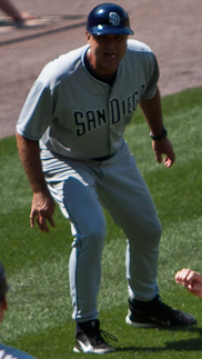 Chase Headley of the San Diego Padres is tagged out at home by Washington Nationals catcher Ivan Rodriguez during a 2011 game at Nationals Park.